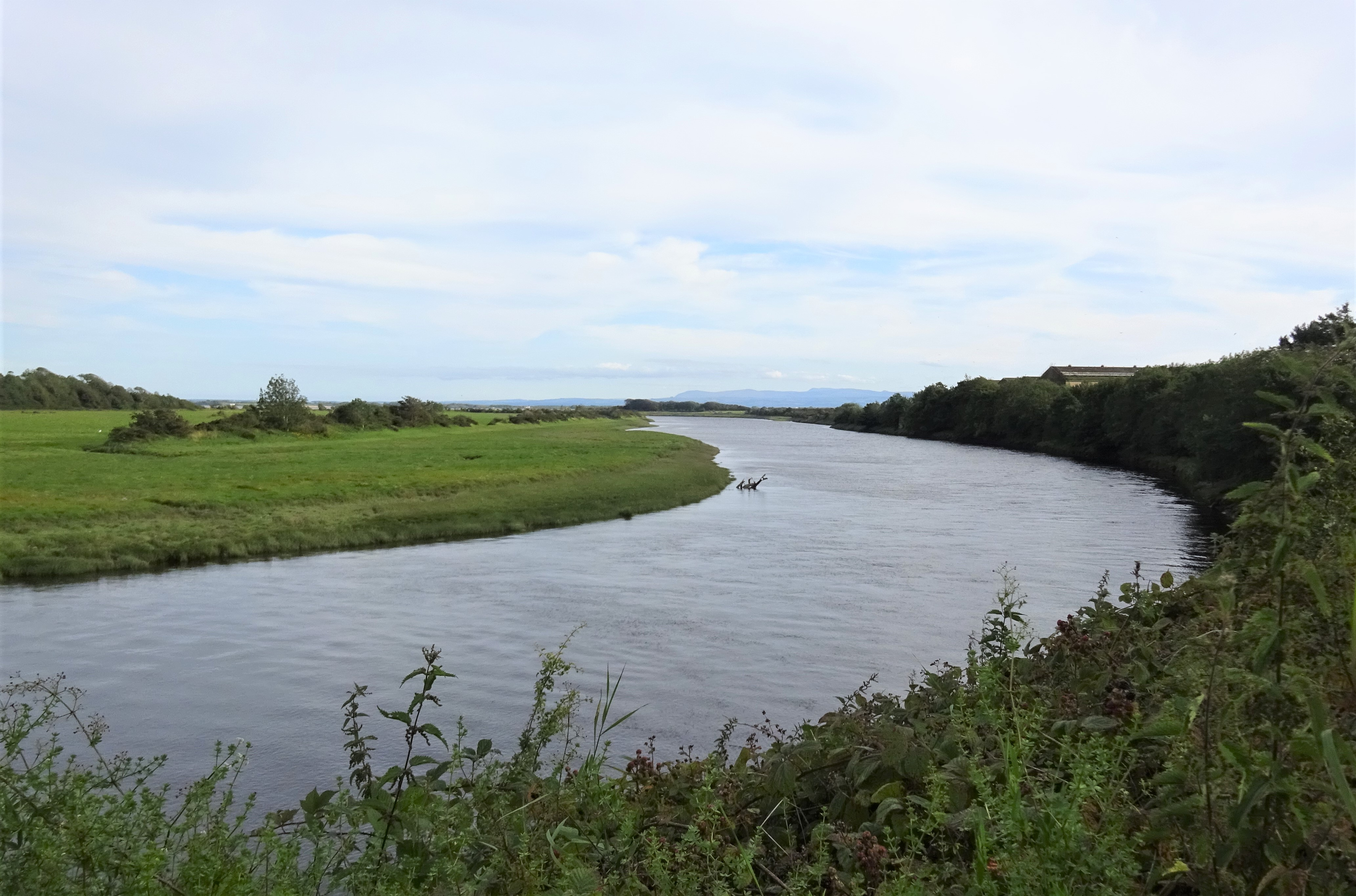 River Annan from the cyclepath at Newbie, Annan, Dumfries and Galloway